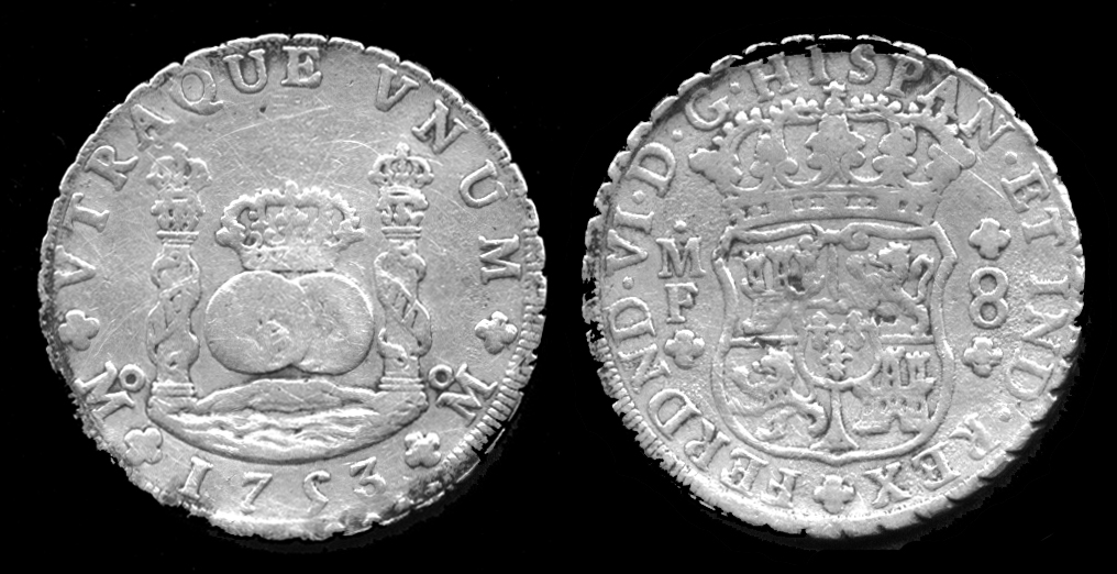 Silver peso of Ferdinand VI.